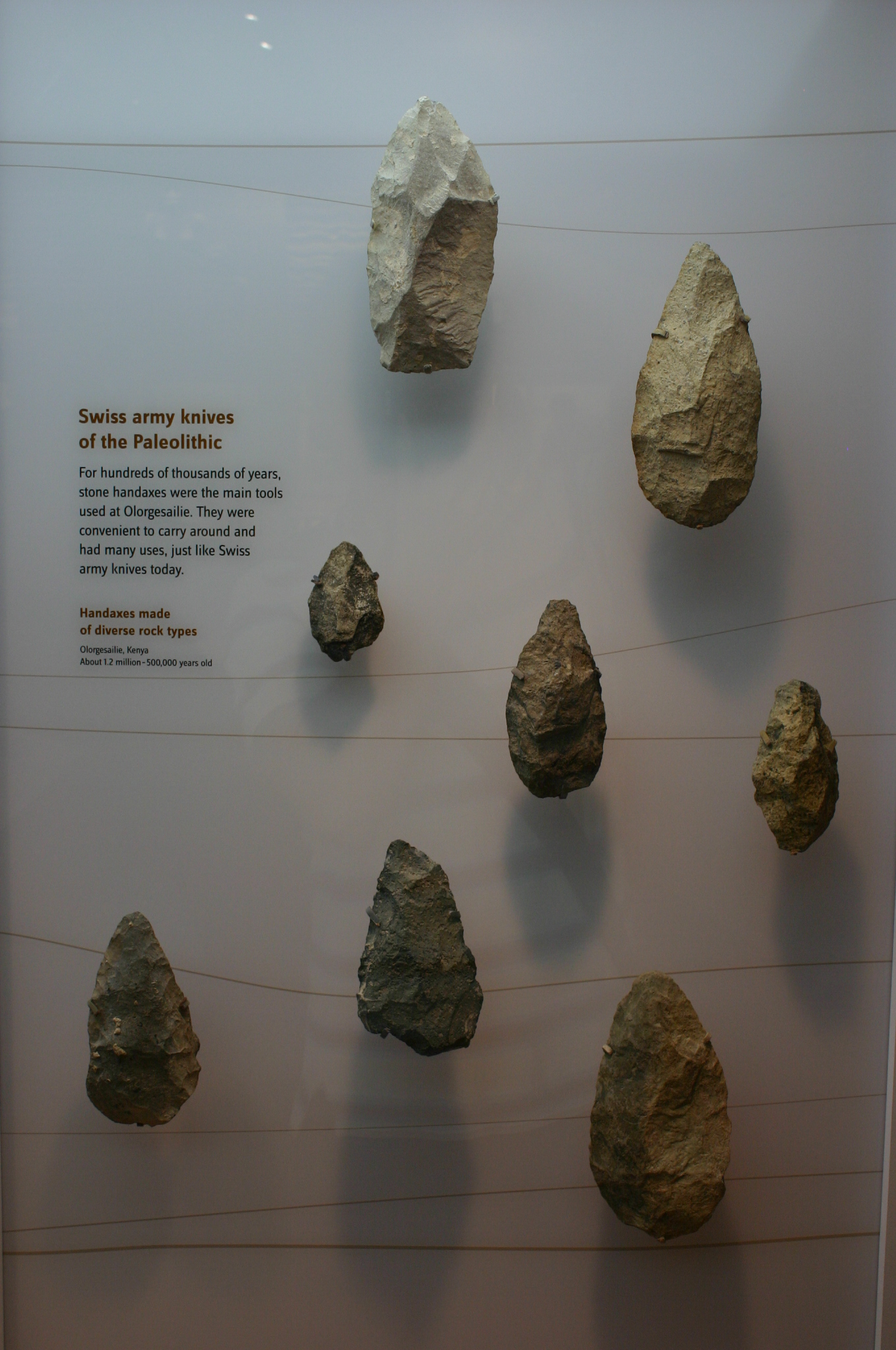 Taken at the David H. Koch Hall of Human Origins at the Smithsonian Natural History Museum.